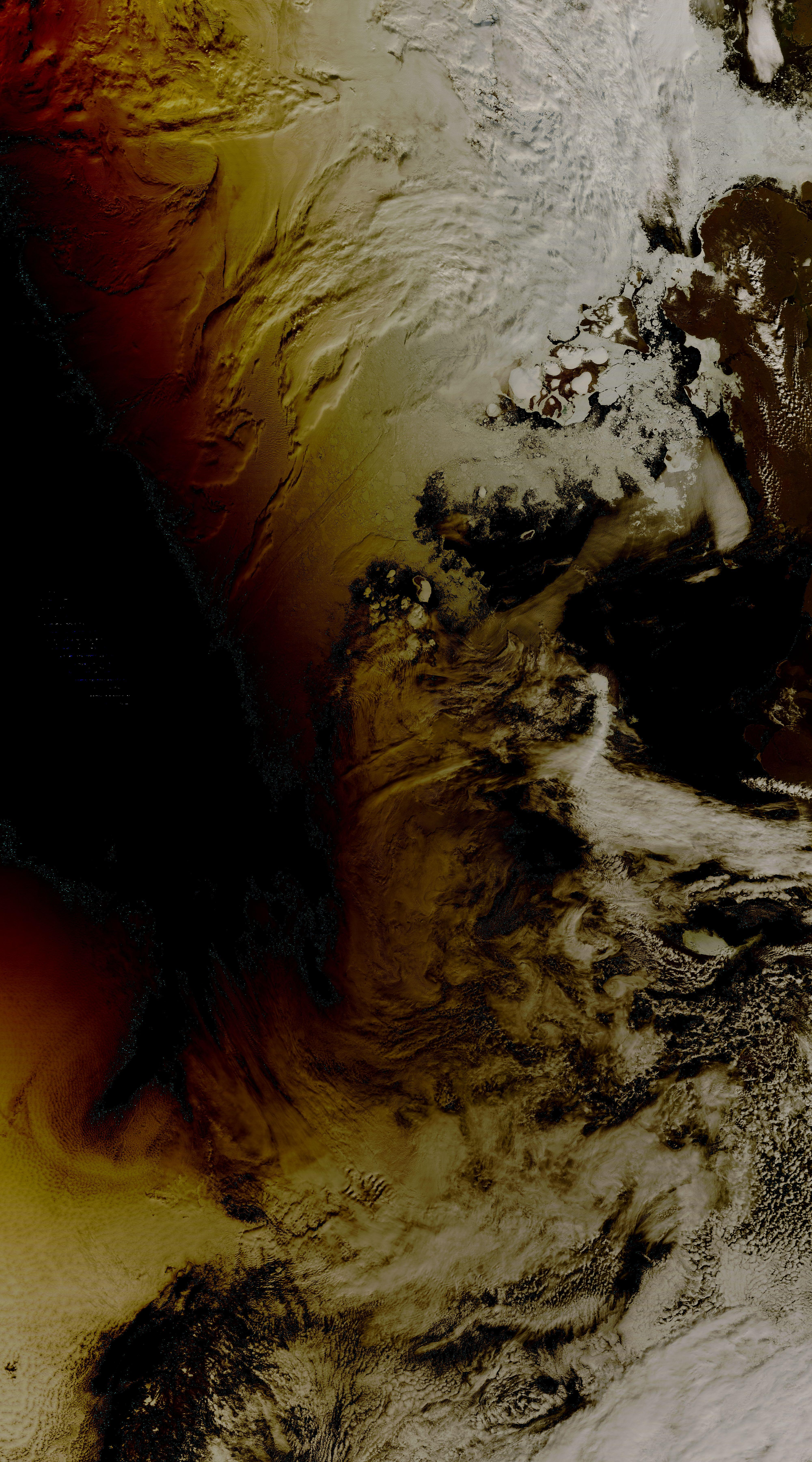 View of a total solar eclipse on earth as seen from NASA's Terra satellite. Covers the Arctic Ocean, northern Norway, and northwest Russia. The affected area was dark for two minutes during the eclipse. Satellite path was nearly perpendicular to the eclipse.